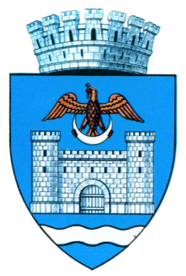 Brăila.